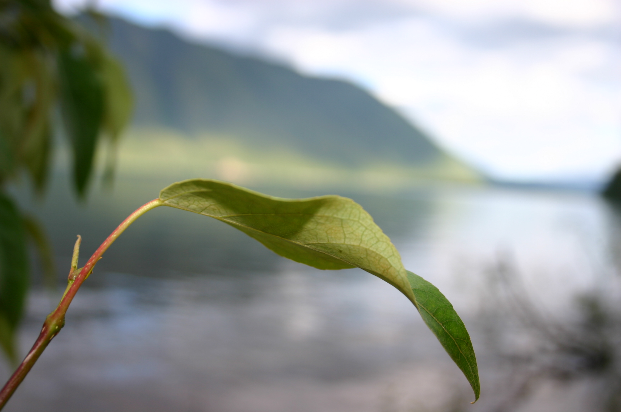 This photo shows a leaf in all its colors.